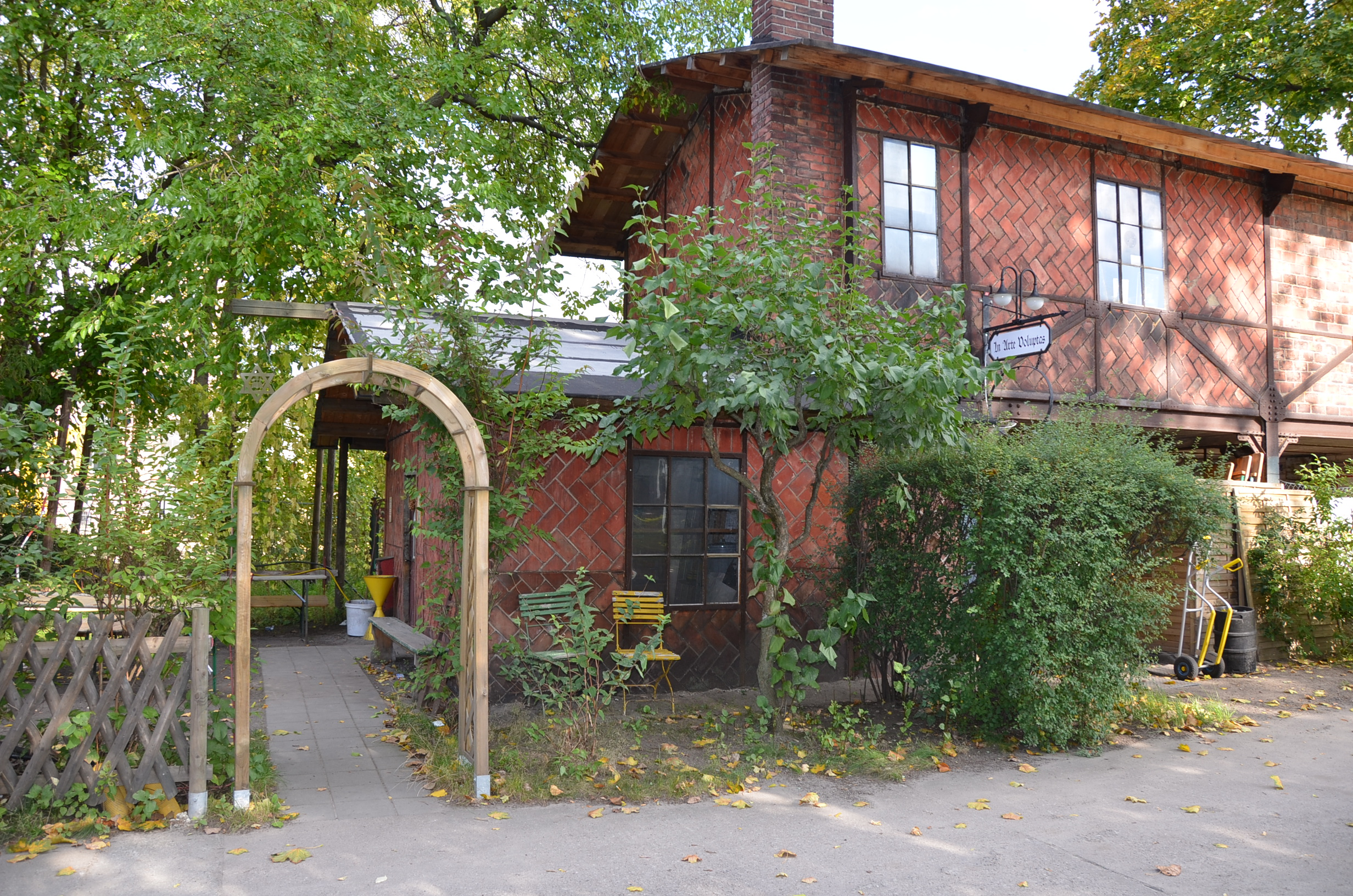 Versuchs- und Lehranstalt für Brauerei